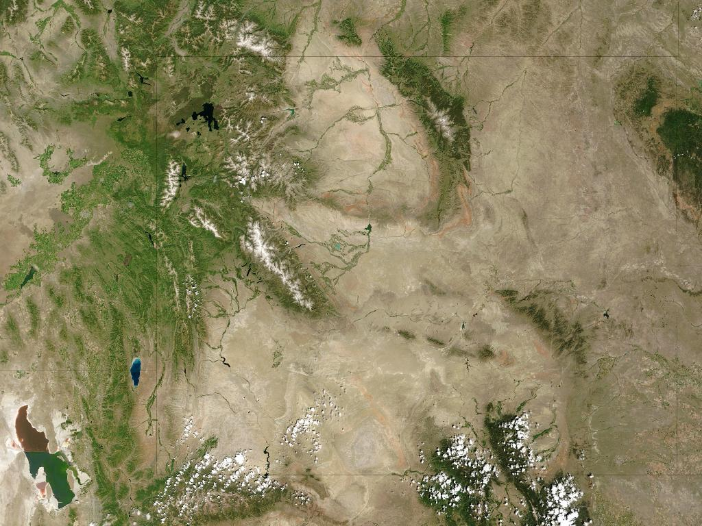 Satellite image of the Wyoming Basin, Wyoming, USA. Satellitenbild des Wyomingbeckens im US-Staat Wyoming